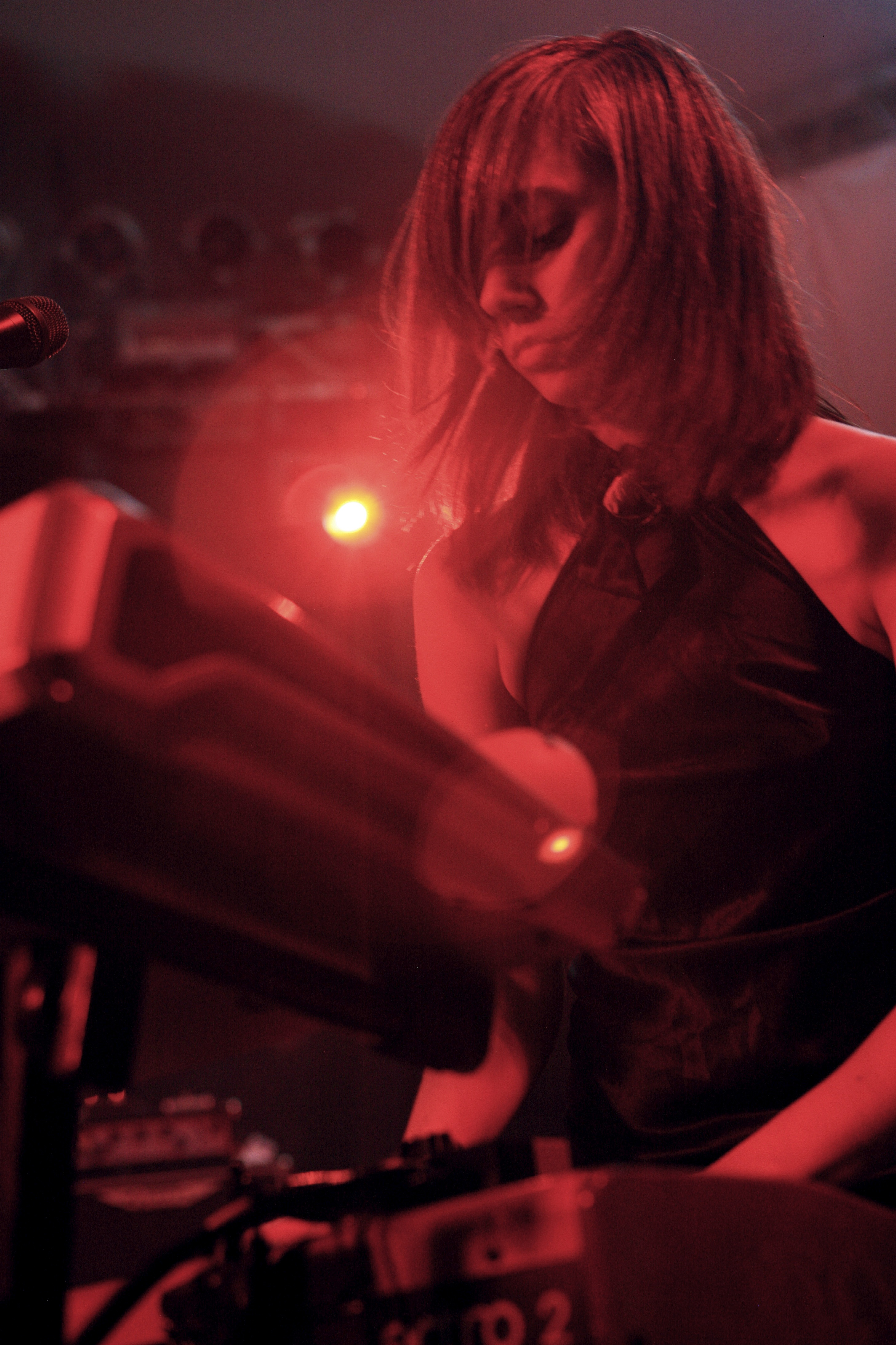 The Dears playing at South by Southwest. Photographed by Kris Krug.